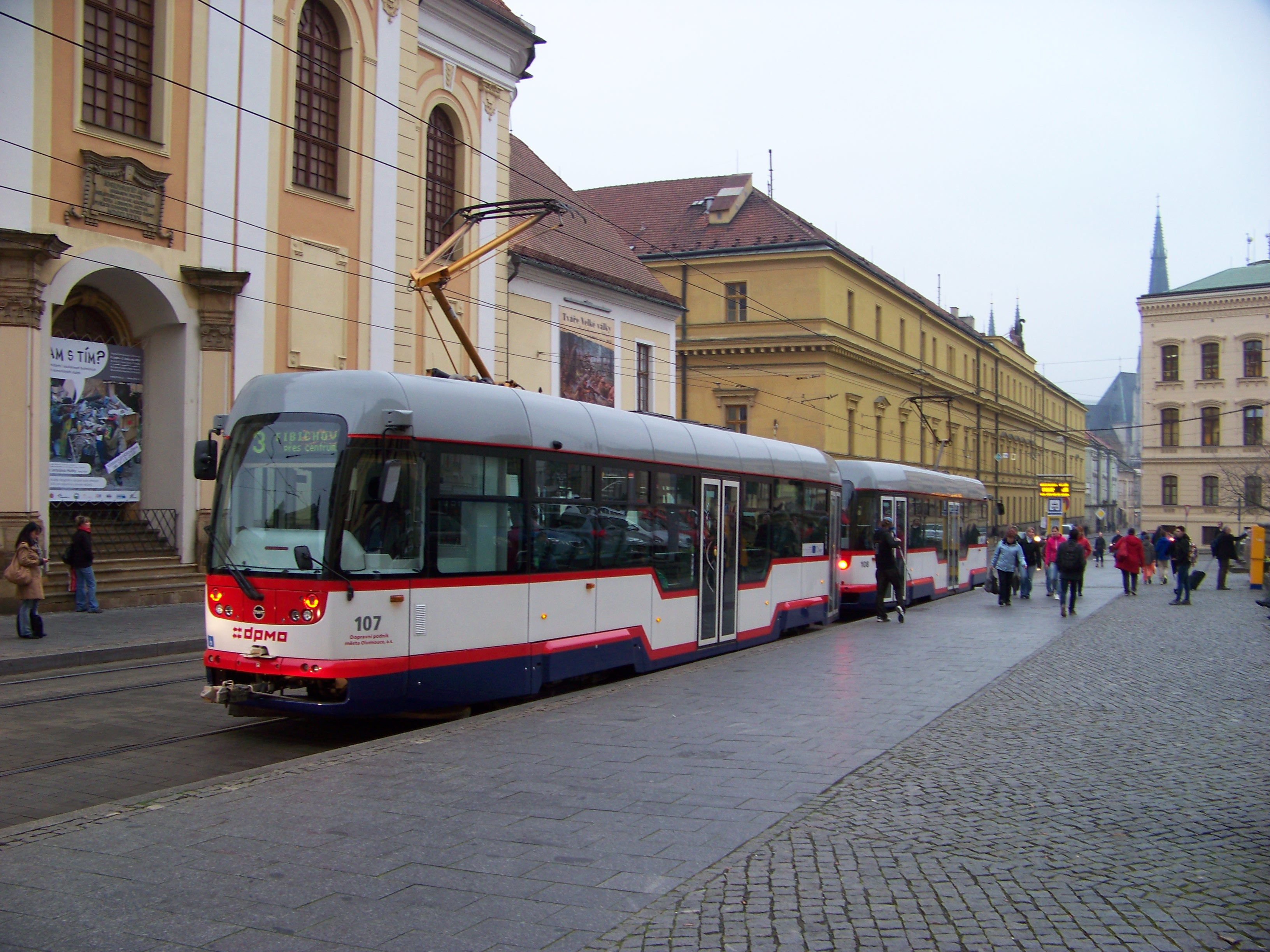 Olomouc, Olomouc District, Olomouc Region, Czech Republic. Náměstí Republiky, a tram.